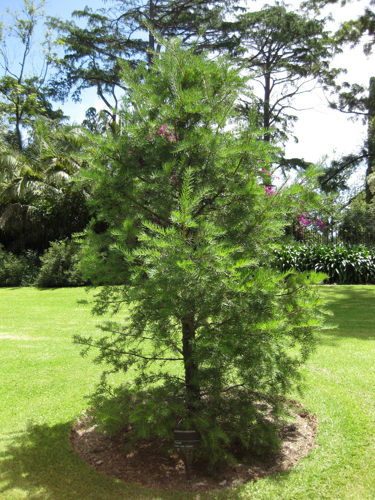 Photographed at the Royal Botanic Gardens Melbourne (Australia) in December